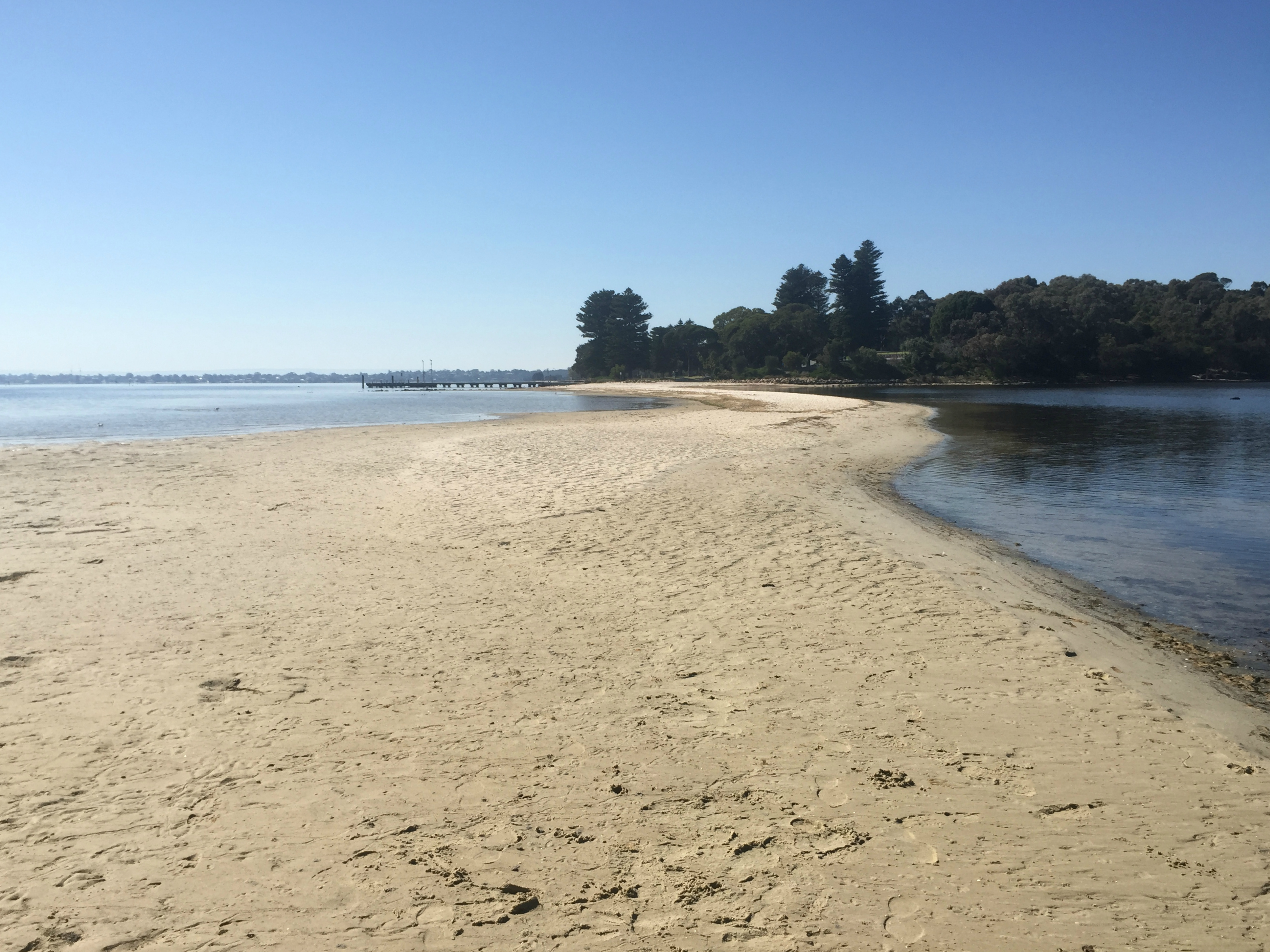 Looking towards Point Walter, Australia from 50 metres out on the sandbar